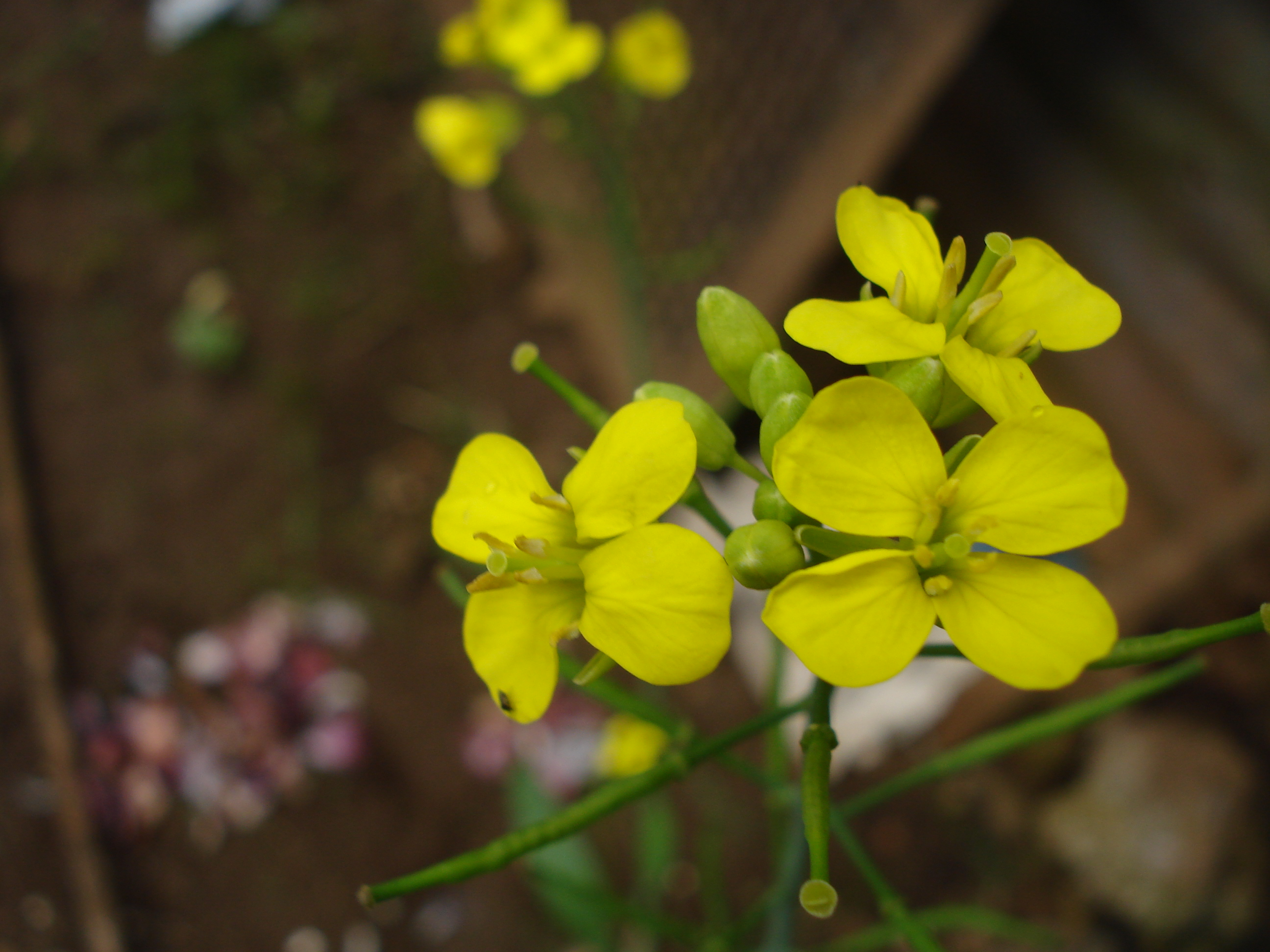 Mustard Plant with Flowers and tender seeds